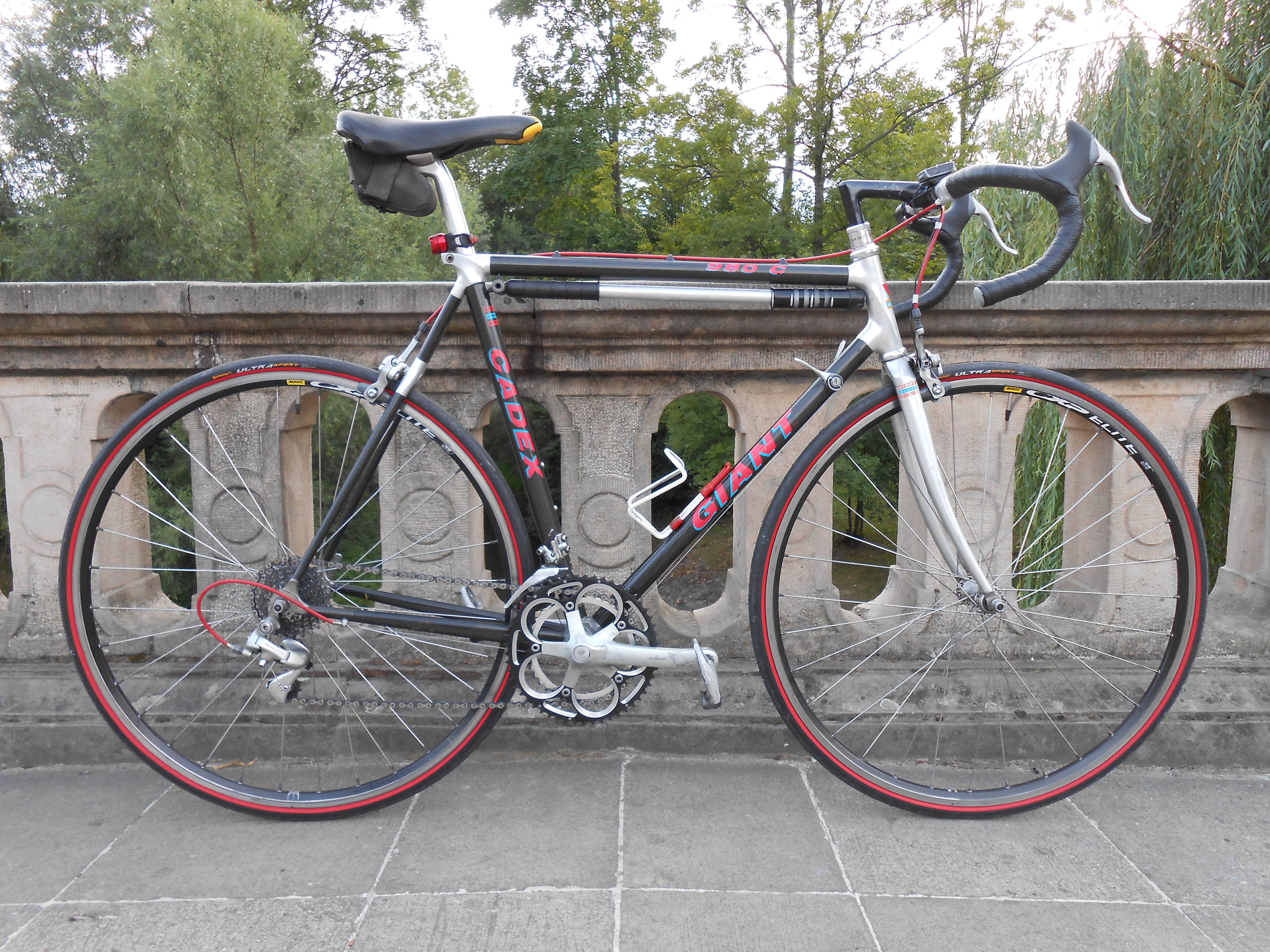 Giant Cadex 980c with carbon/aluminium frame